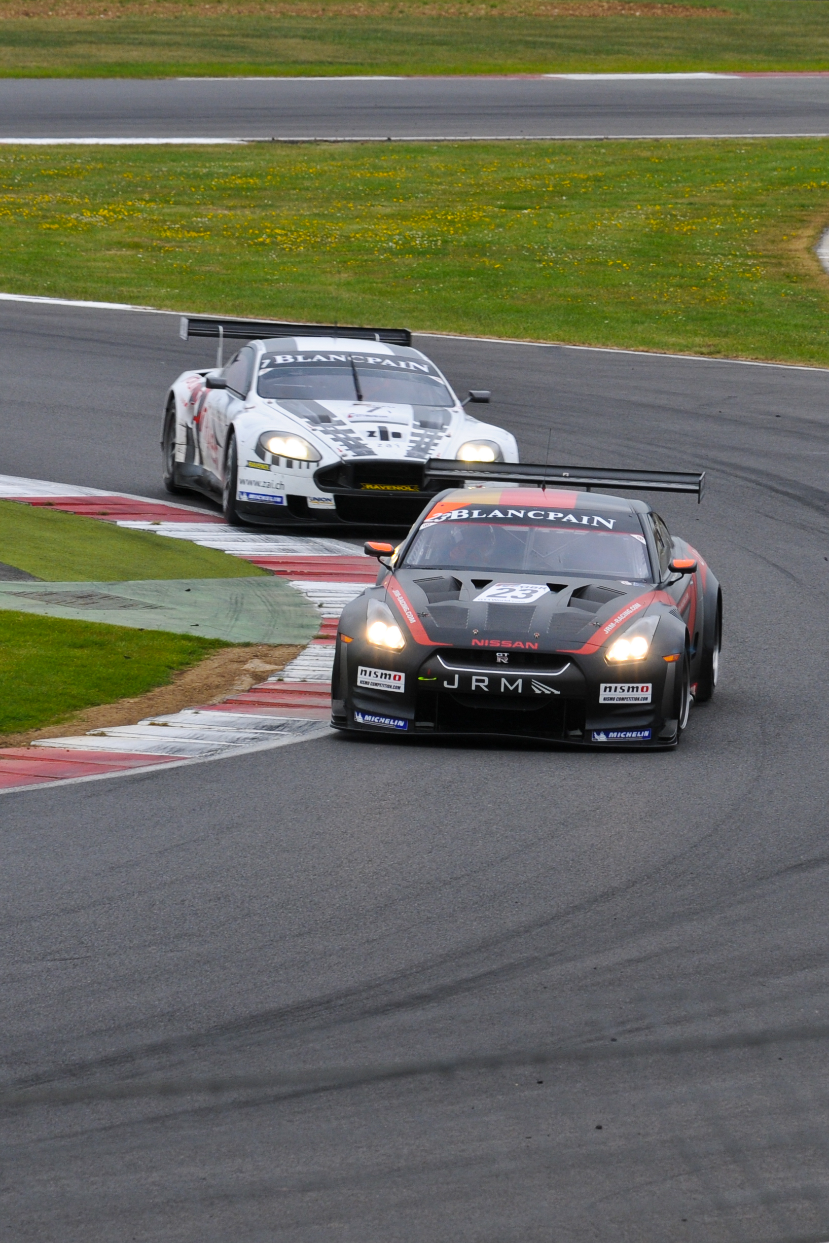 2011 FIA GT1 Silverstone round